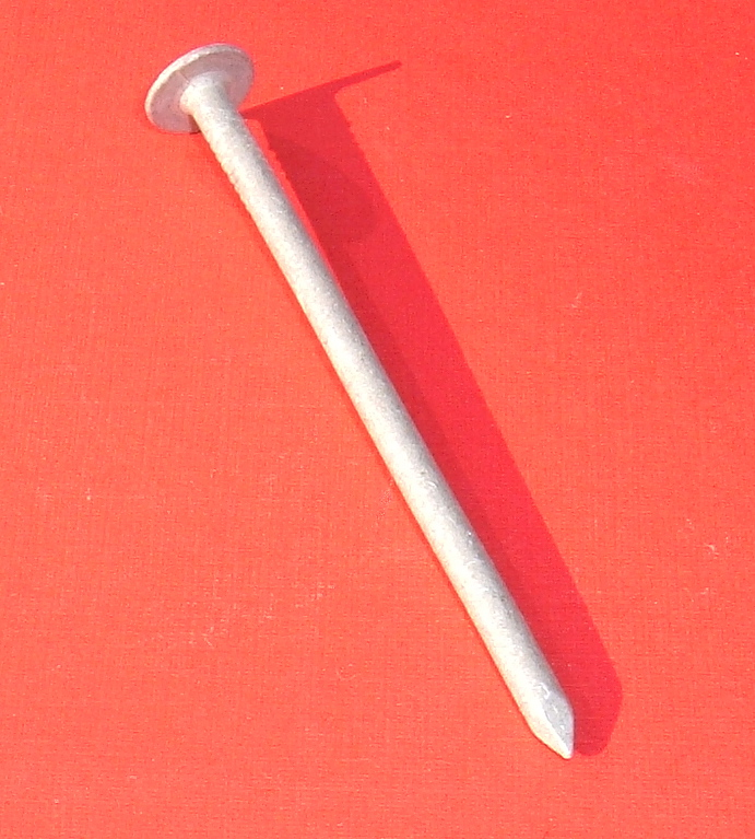 A nail. One of a series of common objects I photographed in the summer of 2005 to illustrate Basic English picture wordlist. --agr 21:08, 3 August 2005 (UTC)